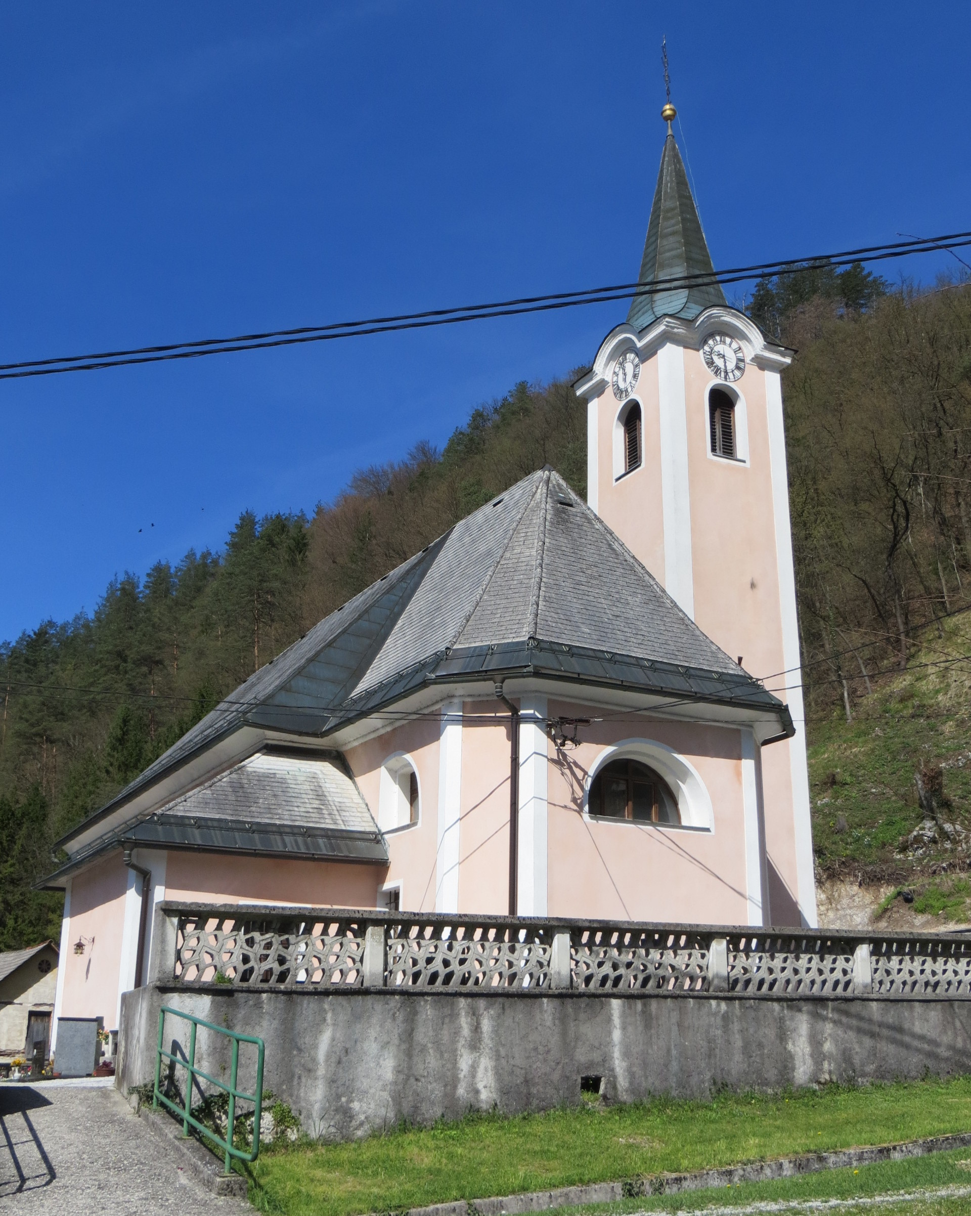 Saint Nicholas's Church in Sava, Municipality of Litija, Slovenia